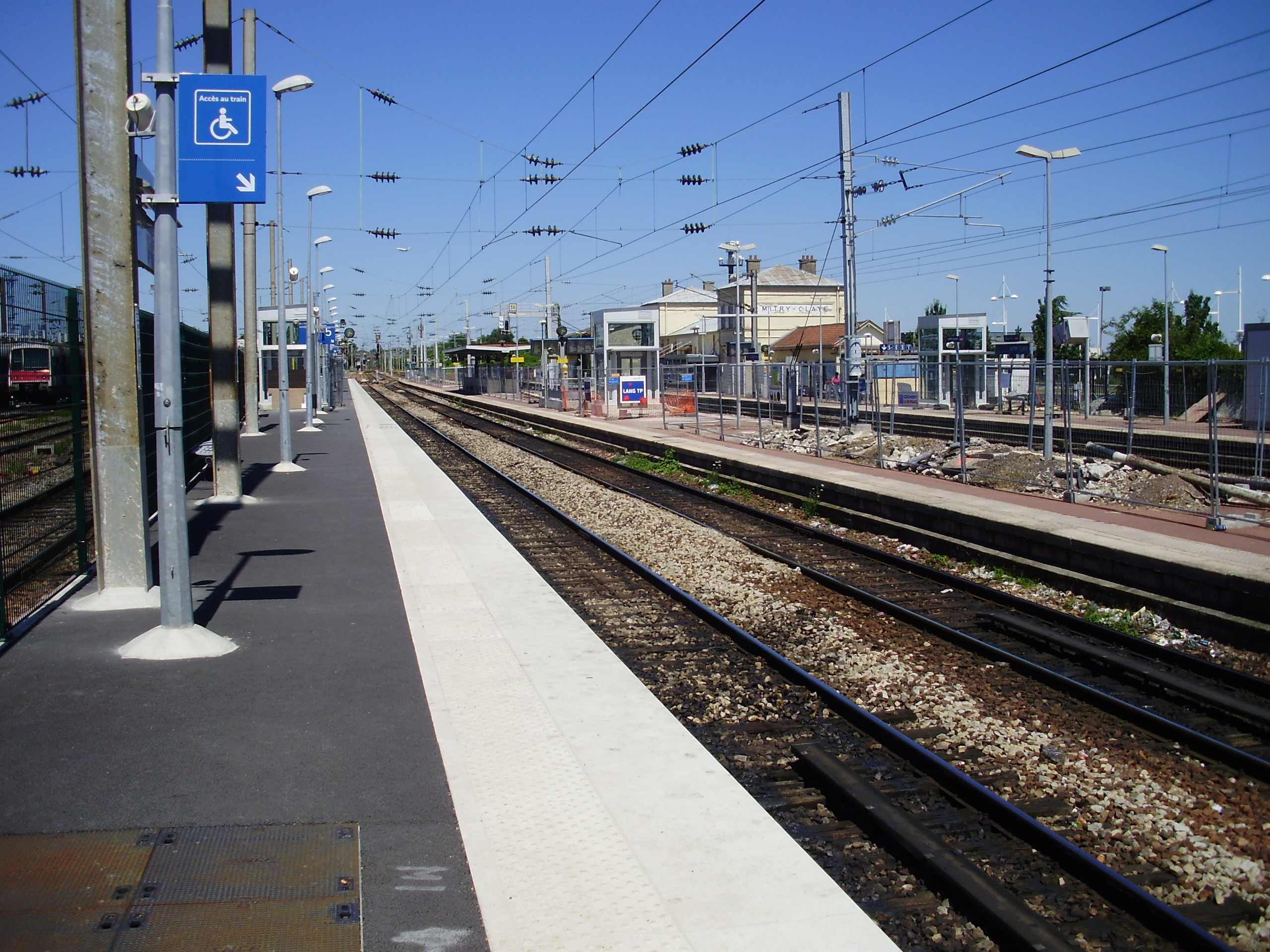 Mitry - Claye station, in Mitry-Mory, Seine-et-Marne, France (general view from the SW extremity of the platform number 5 used by trains of the RER B line)